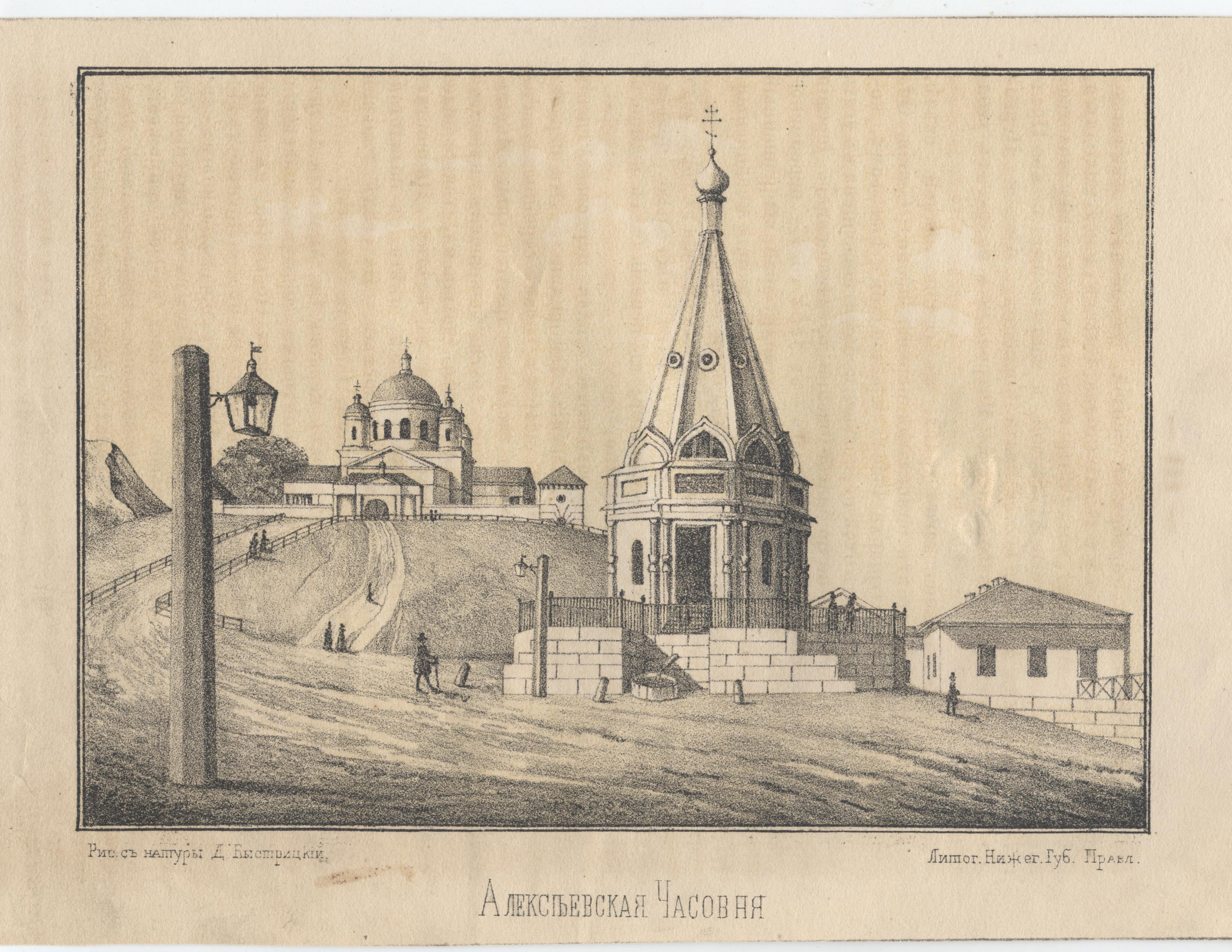 The historical centre of Nizhny Novgorod. The Alex-chapel on the Blagoveschensky square